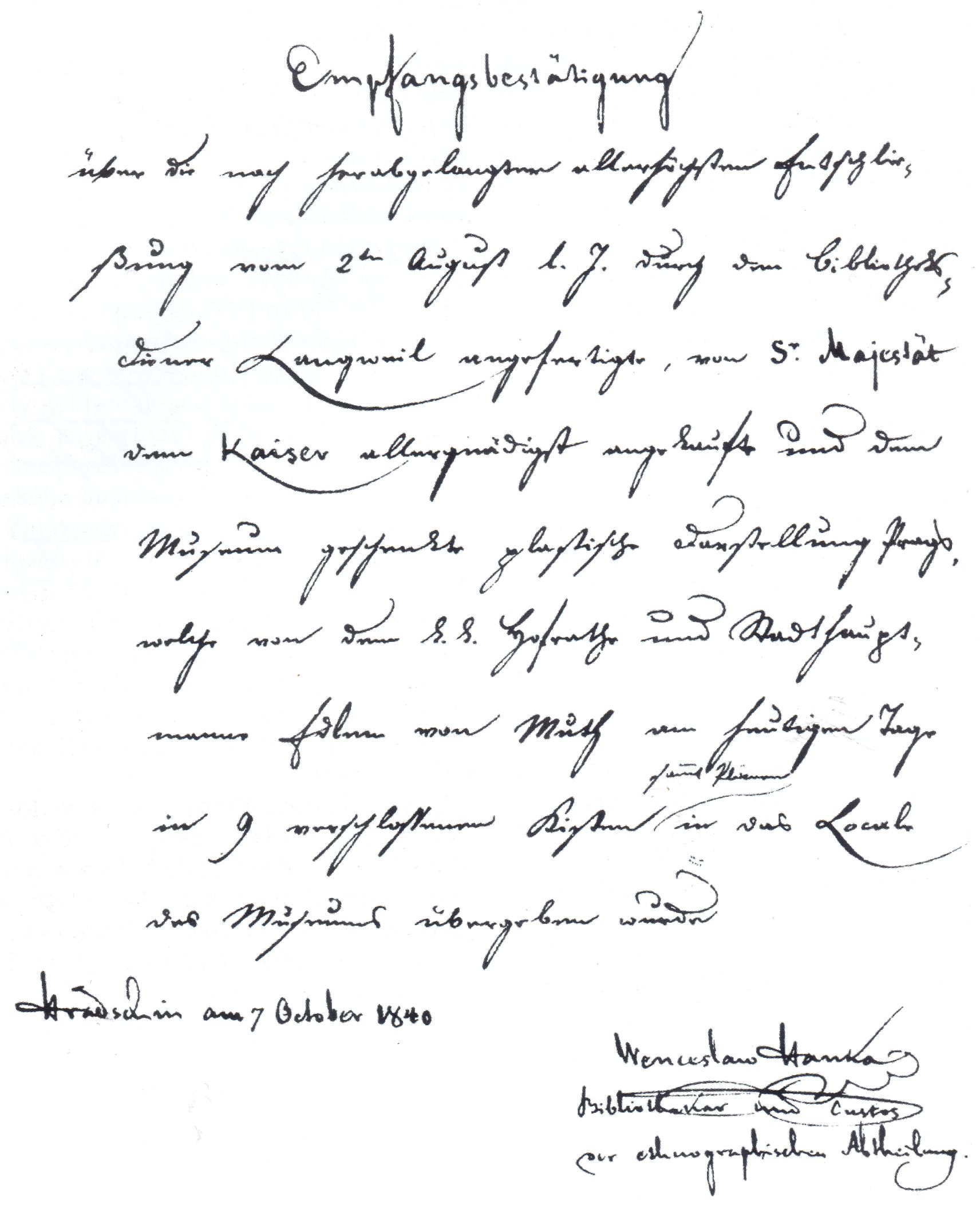 Acknowledgment of reception of Langweil’s model of Prague by Václav Hanka